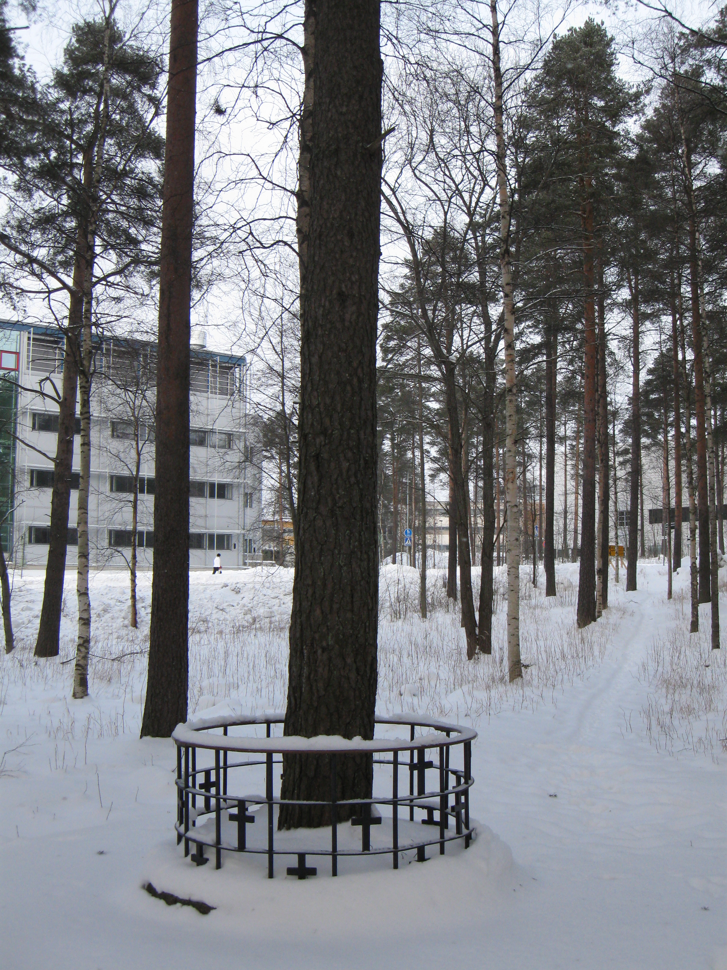 The tree in Kontinkangas, Oulu, Finland, where Taavetti Lukkarinen was hanged in 1916.